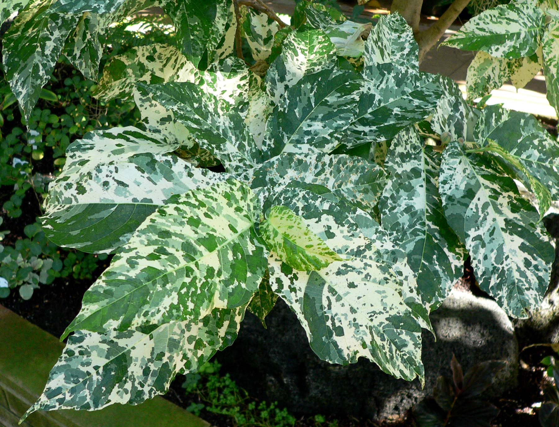 Photo of Ficus aspera at Balboa Park